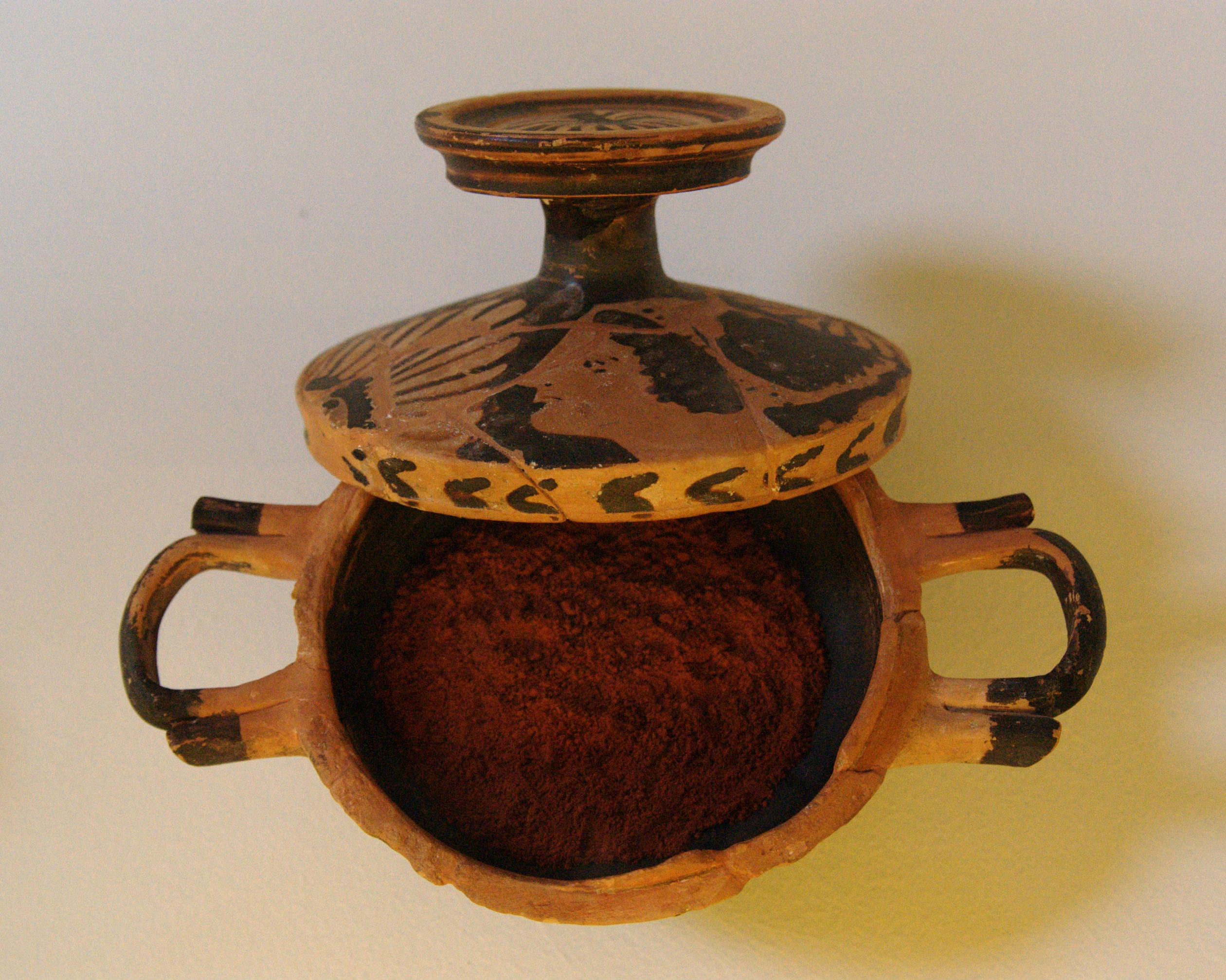 Make-up pot with red pigment, 4th century BC. National Archaeological Museum in Paestum, inv. T.4/1990. From Fontana del Bolle (near Paestum), grabe #4.